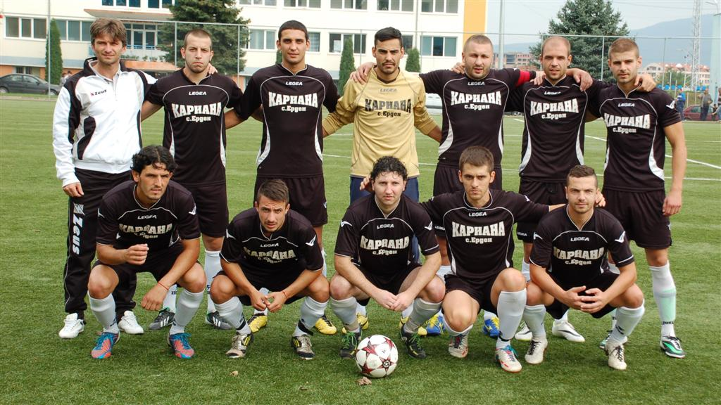 Kariana Erden squad v FC Kom Berkovitsa